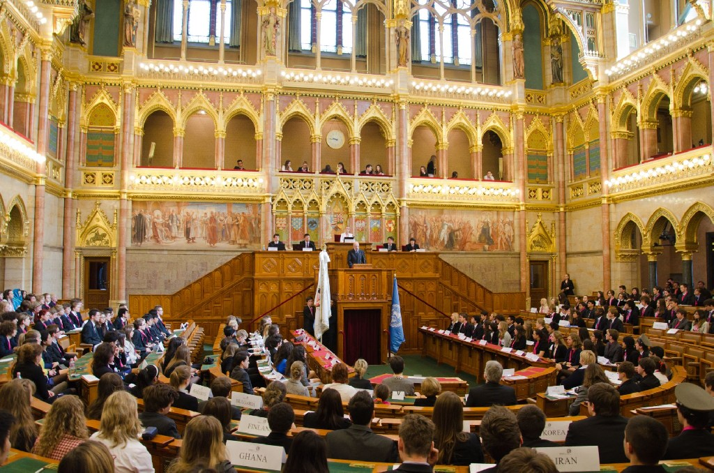 The opening ceremony of Budapest International Model United Nations 2012 in the Hungarian Parliament Building